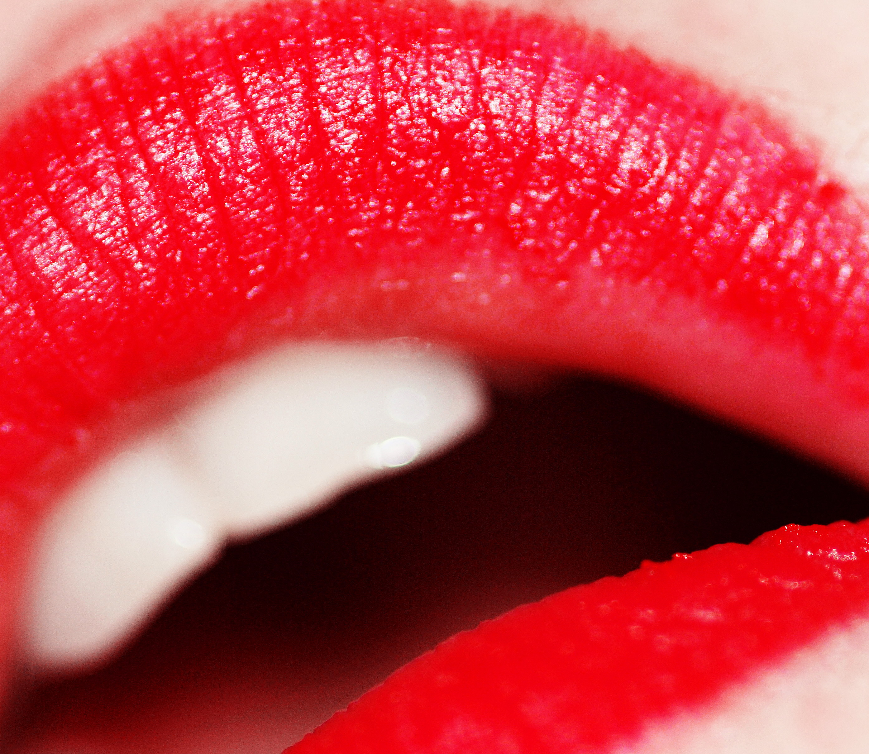 Red lipstick